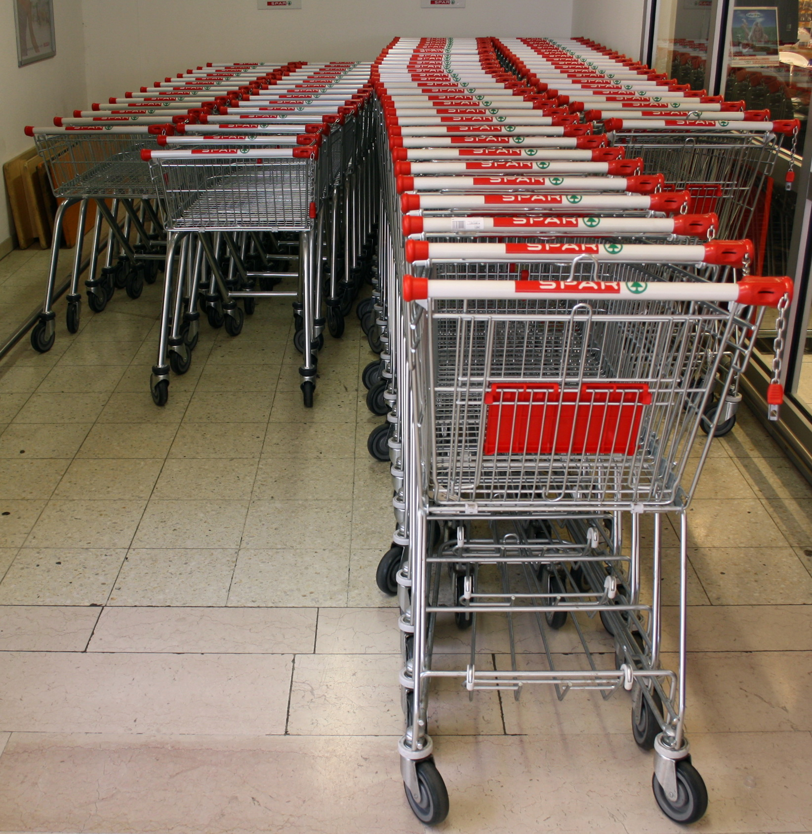 Trolleys in the supermarket chain Spar in Austria.